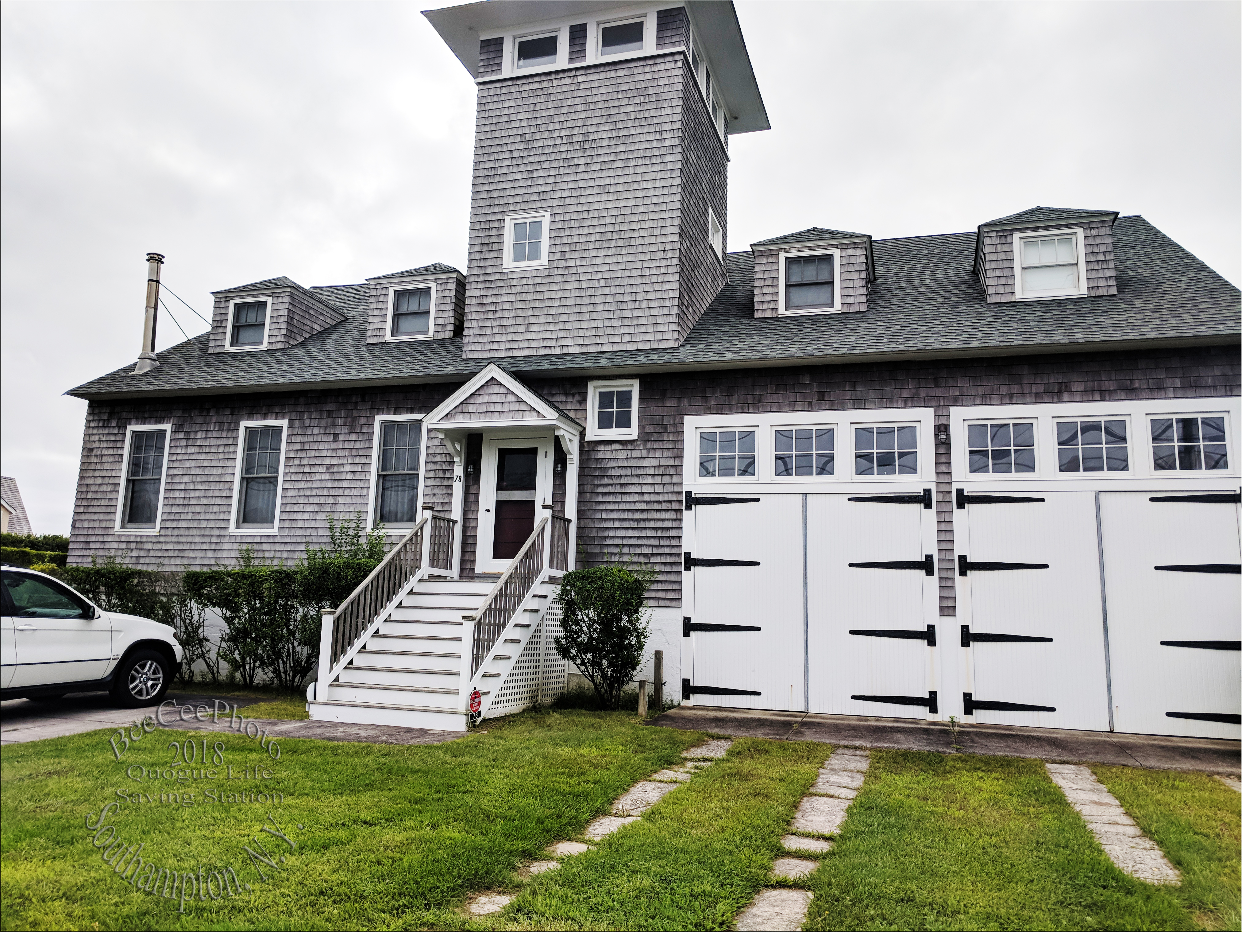 Used by the Coast Guard early 19th century